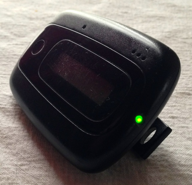 An Arbitron Portable People Meter worn by panel members to monitor media exposure